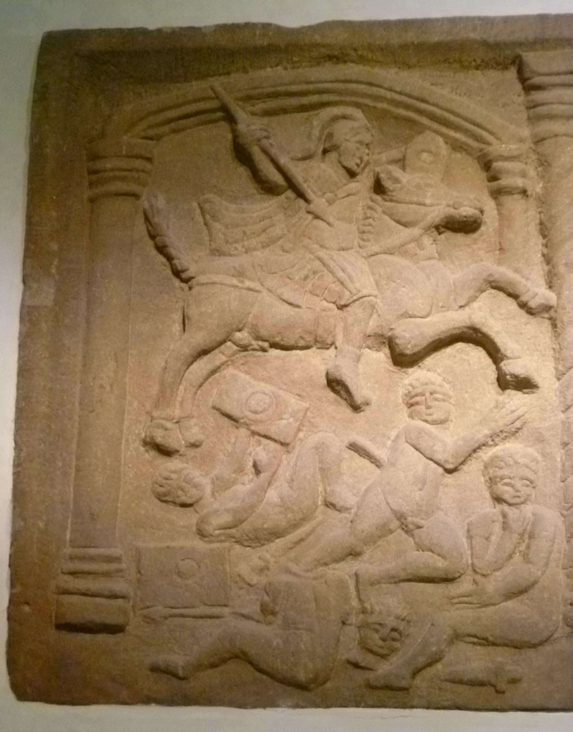 Detail of a legionary tablet c.142 AD found at Bo'ness on the southern shore of the Firth of Forth in 1868, near the eastern end of the Antonine Wall. It shows a Roman mounted auxiliary trampling conquered Picts.